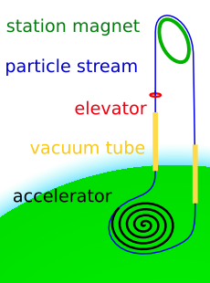 image created by me, fenn_fukai with inkscape 0.40; original svg can be found at